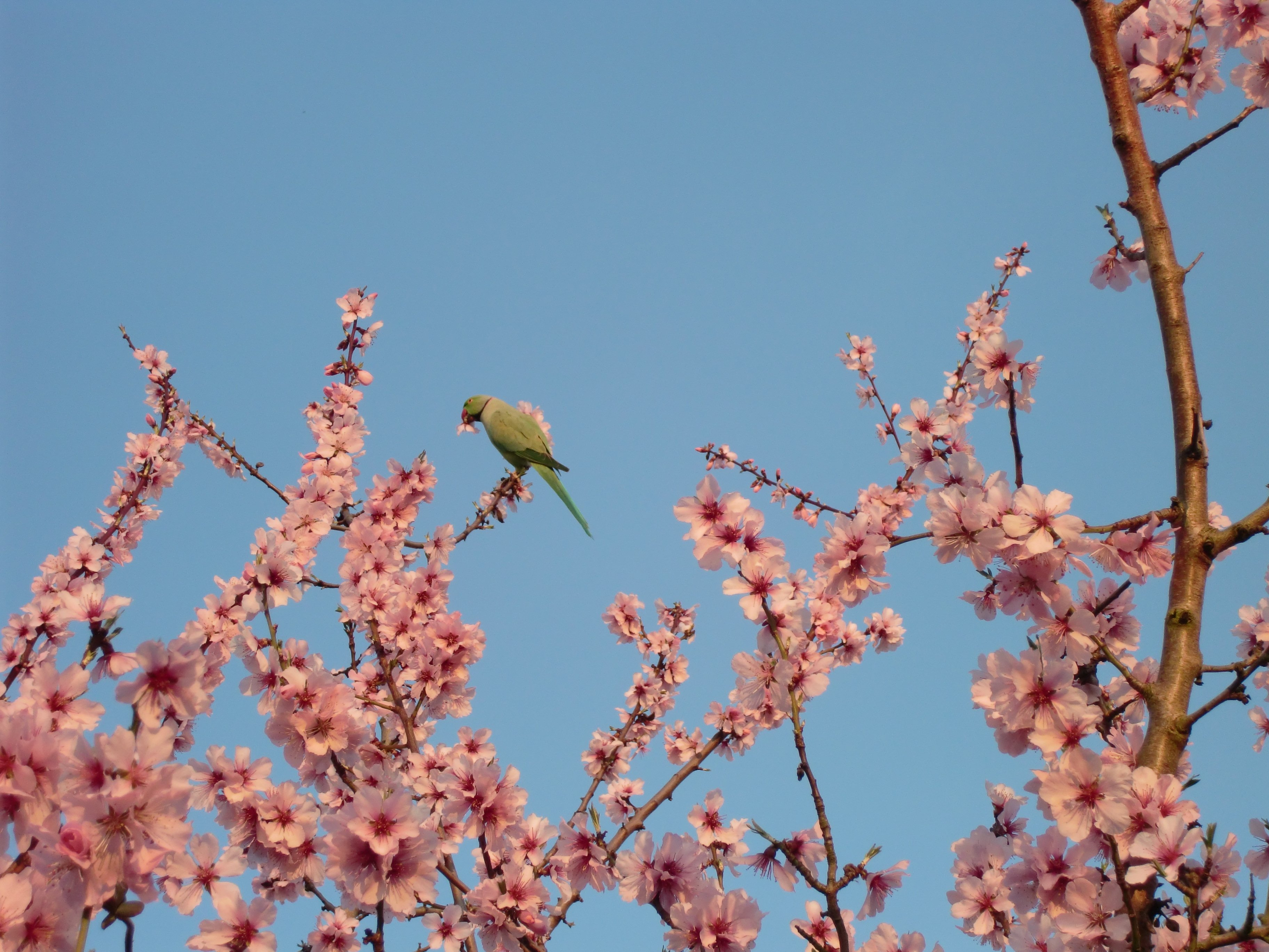 Feral Rose ringed Parakeet eating Bitter Almond blossom in a Teddington garden